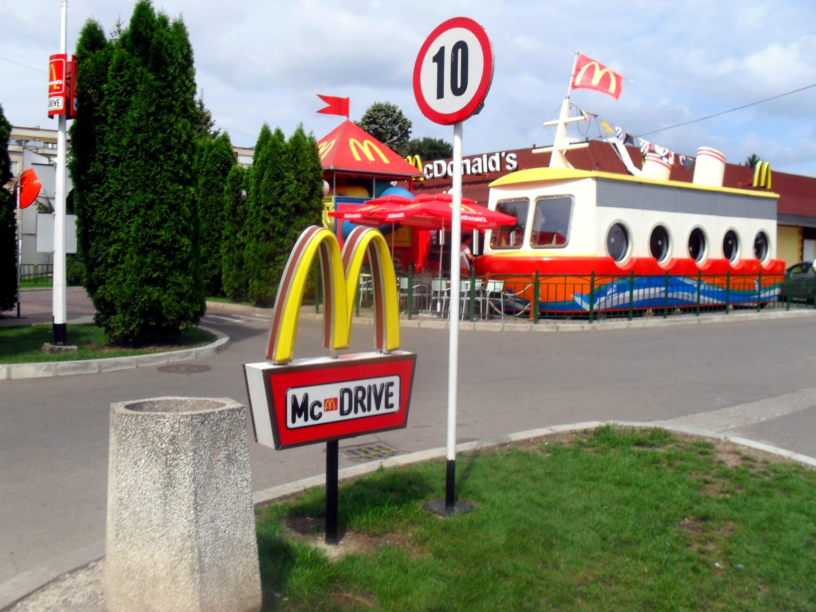 Mc Donald's in Bacau, Romania.